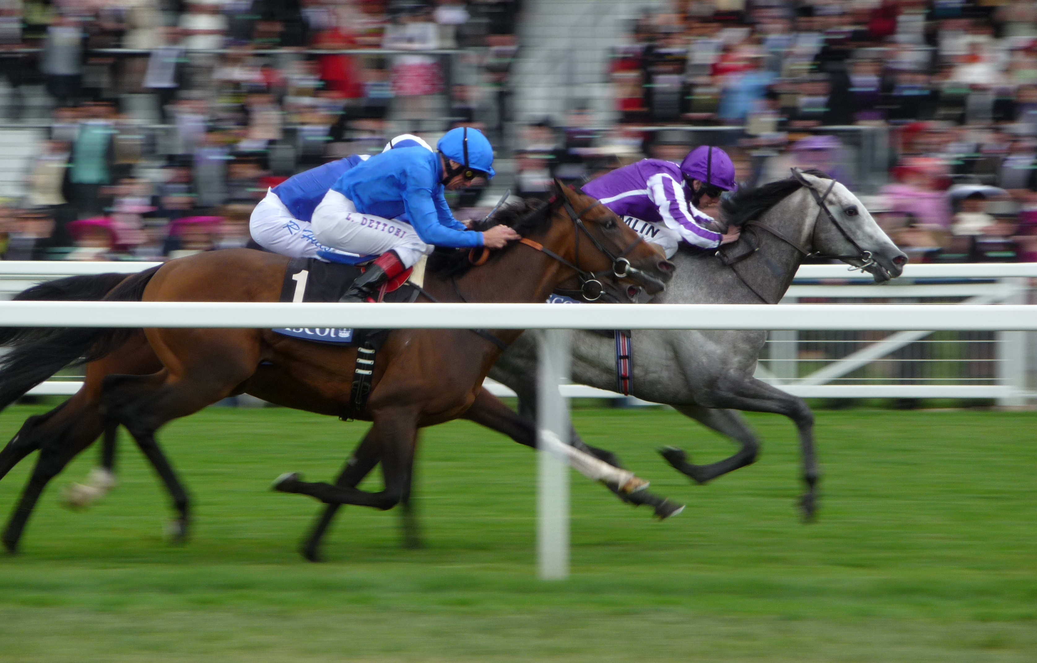 Mastery (#1) and Yankee Doodle (grey horse) at 2009 Queen's Vase run at Ascot Racecourse.